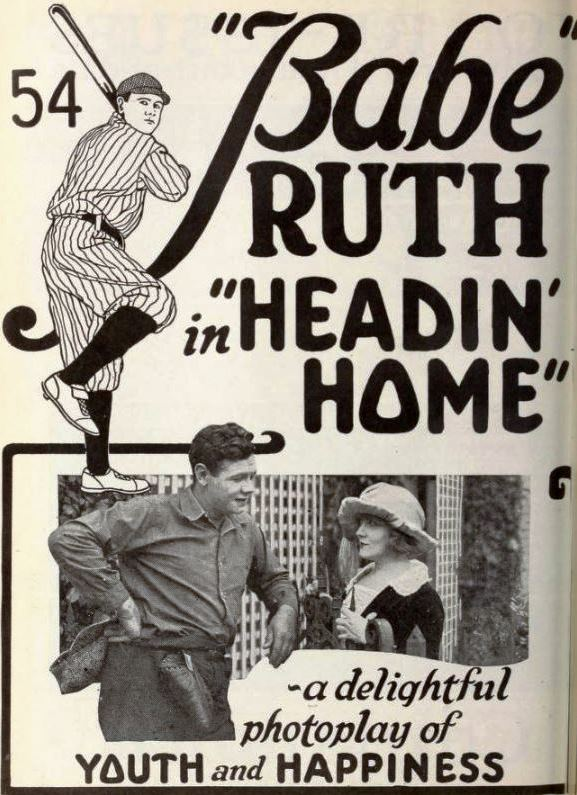 Advertisement for the American baseball film Heading Home (1920), also known as Headin' Home, with Babe Ruth and Ruth Taylor, on page 16 of the October 16, 1920 Exhibitors Herald. Note: This is not the same Ruth Taylor as Ruth Taylor (actress) (who started appearing in films in 1925).